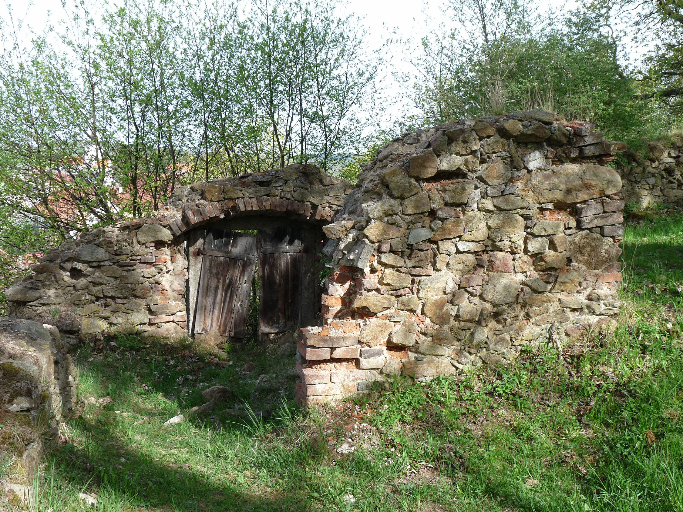 Gate of the Jewish cemetery in Kolinec, Klatovy District, Czech Republic